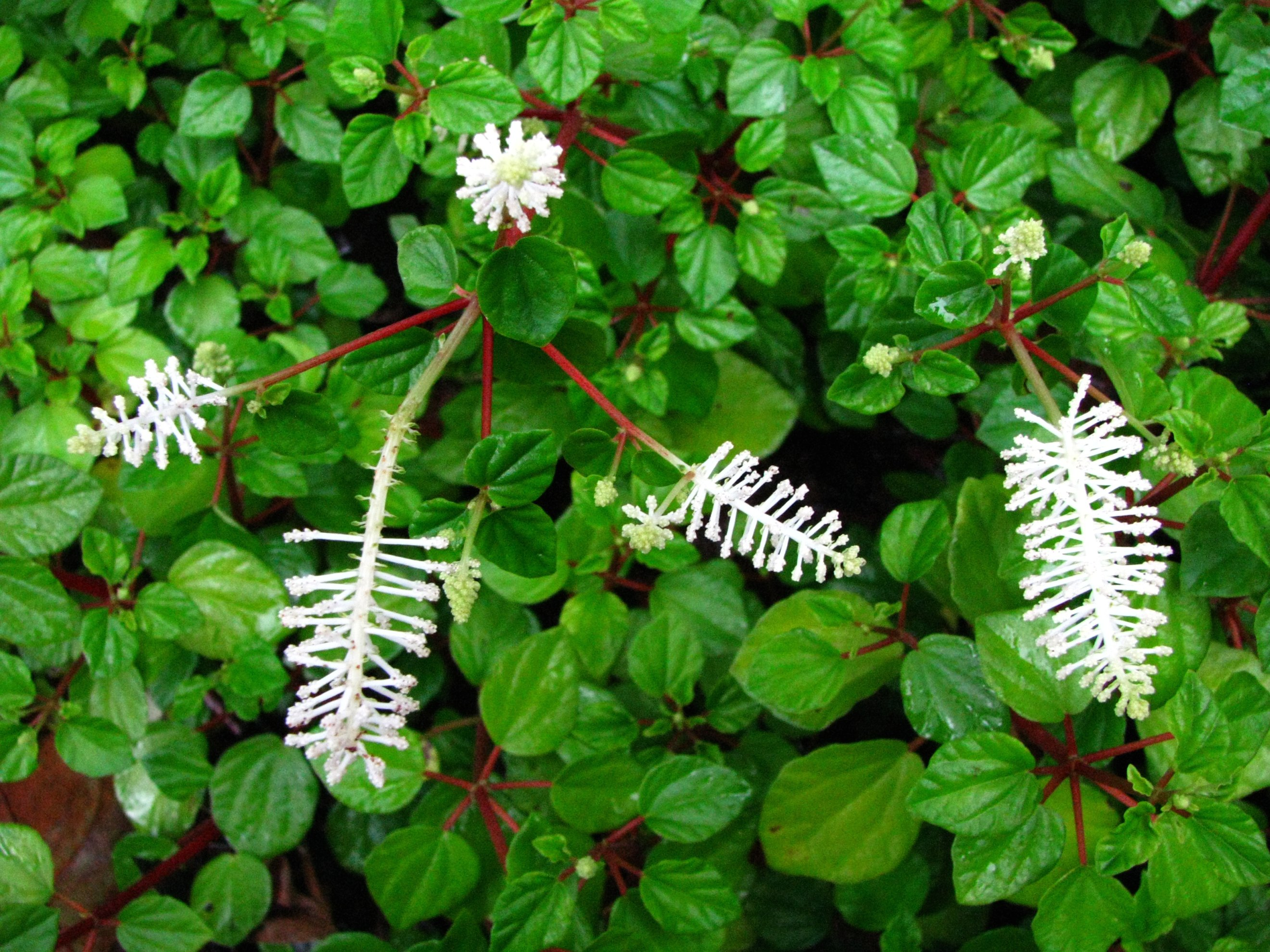 [Syn. Peperomia resediflora] Flowering peperomia Piperaceae Native to Ecuador Oʻahu (Cultivated)